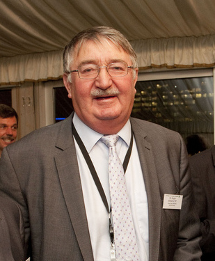 Liberal Democrat MP Roger Williams at the All-Party Parliamentary Gardening & Horticulture Group meeting - November 2011